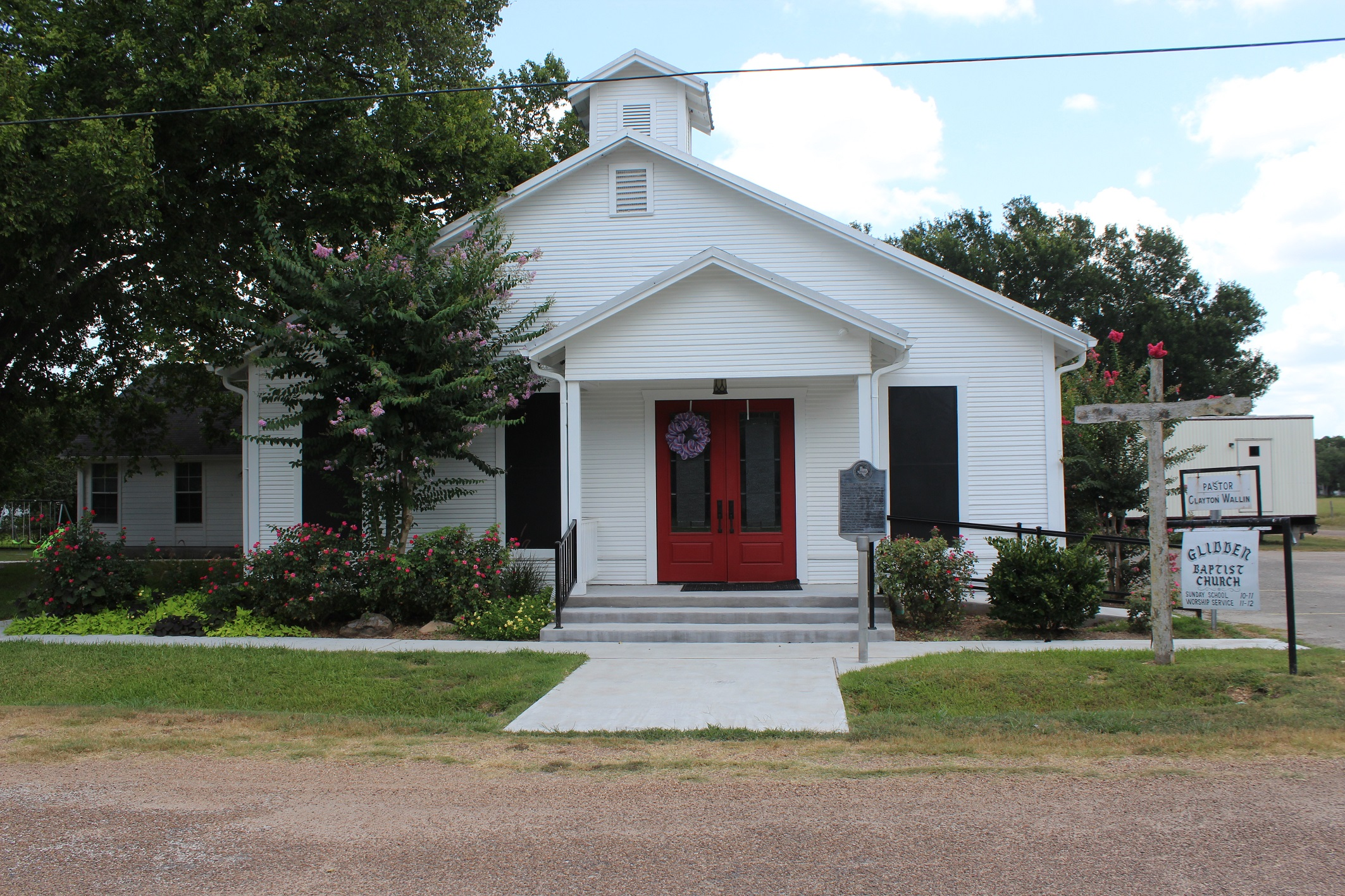 Glidden Baptist Church. This congregation grew out of a community church that began meeting in the railroad town of Glidden as early as 1895. In 1906 the Glidden Missionary Baptist Church in Christ was formally organized. Members of the church called their first pastor, Oscar Ferrell, the following year. During the early years, baptisms were held in the Colorado River or in the pits at the Railroad Roundhouse. The Glidden Baptist Church, as the fellowship now is known, has played an important role in the community's growth and development. #2193